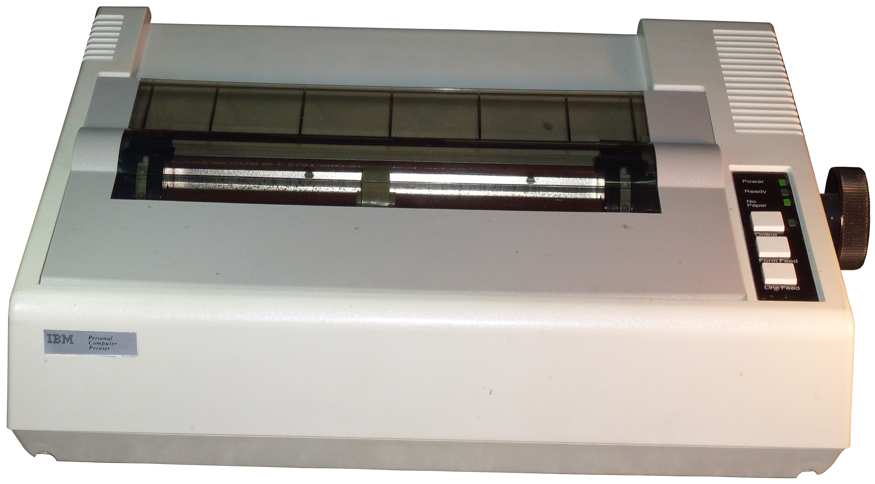 IBM Personal Computer Printer (Model 5152) It was the printer that comes with the first IBM PC computer. It was an Epson MX-80 printer relabeled as an IBM printer, but inside it had an Epson label printed on a circuit board.